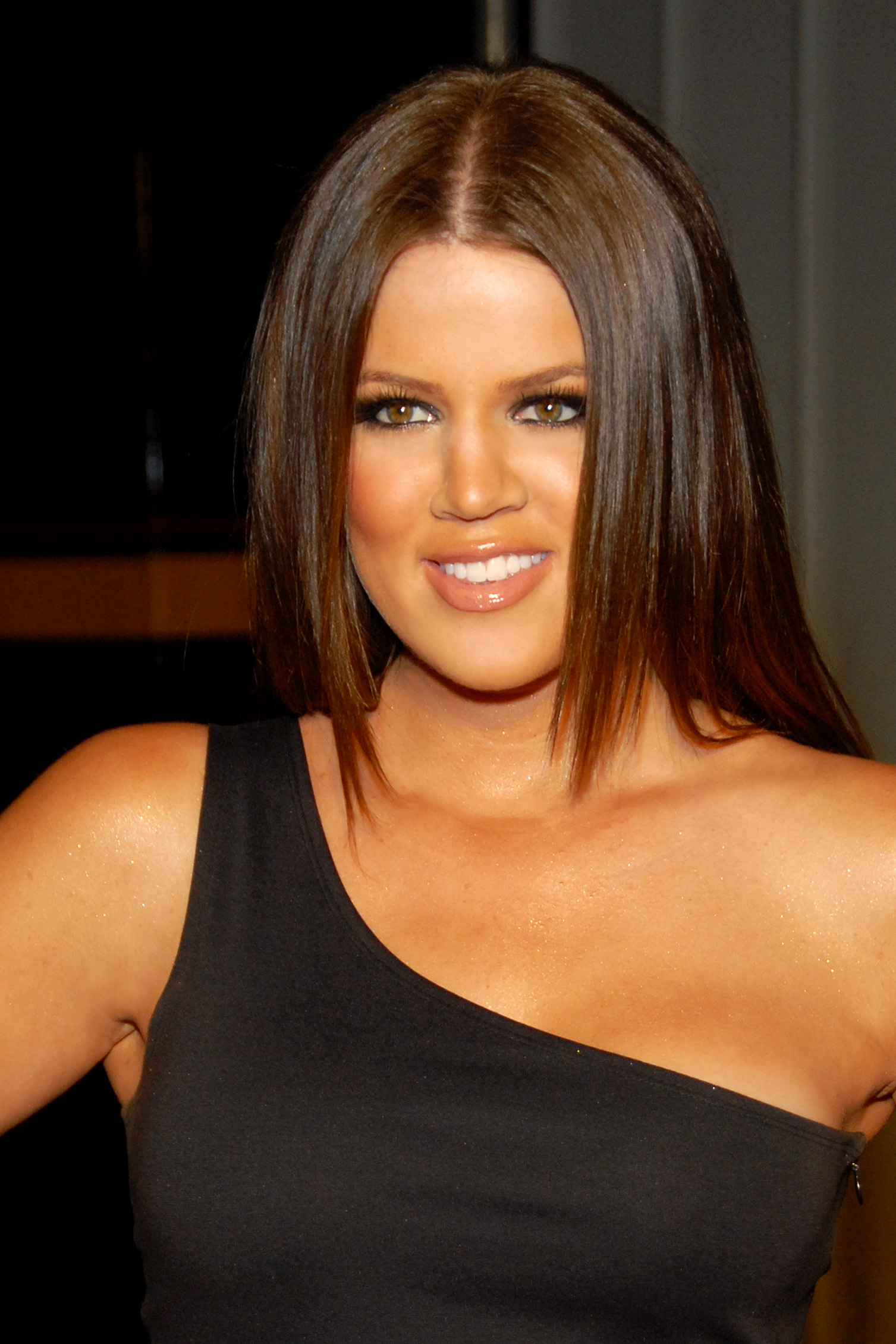 Khloé Kardashian attending Maxim's 10th Annual Hot 100 Celebration, Santa Monica, CA on May 13, 2009 - photo by Glenn Francis of